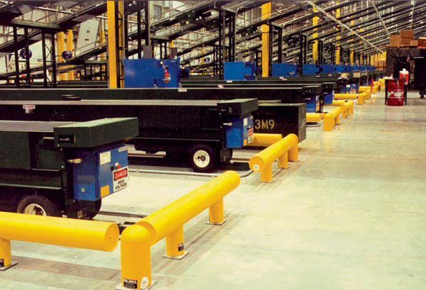 Ideal Shield guardrail protecting expensive machinery